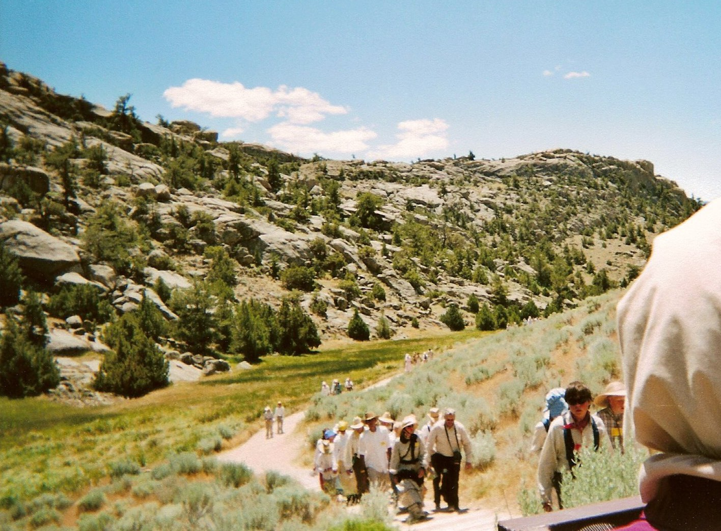 Members of The Church of Jesus Christ of Latter-day Saints visit Martin's Cove on a "Handcart Trek".